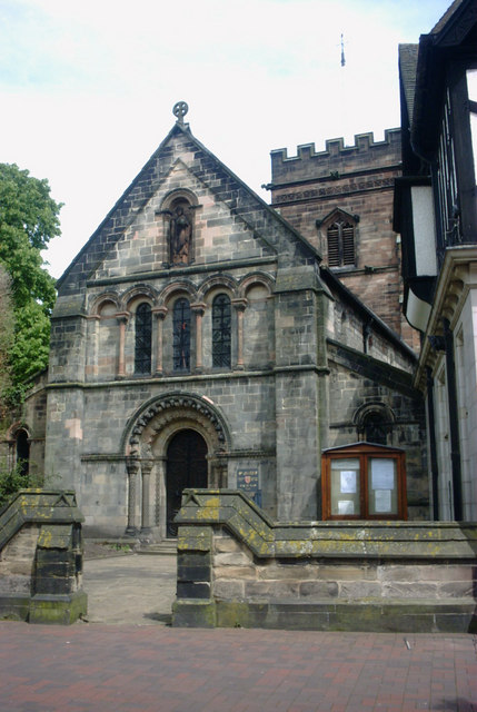 St Chad's Church, Stafford, near to Stafford, Staffordshire, Great Britain. St Chad's in Greengate Street, Stafford, apparently, the oldest church and building in Stafford, built around the year 1150.